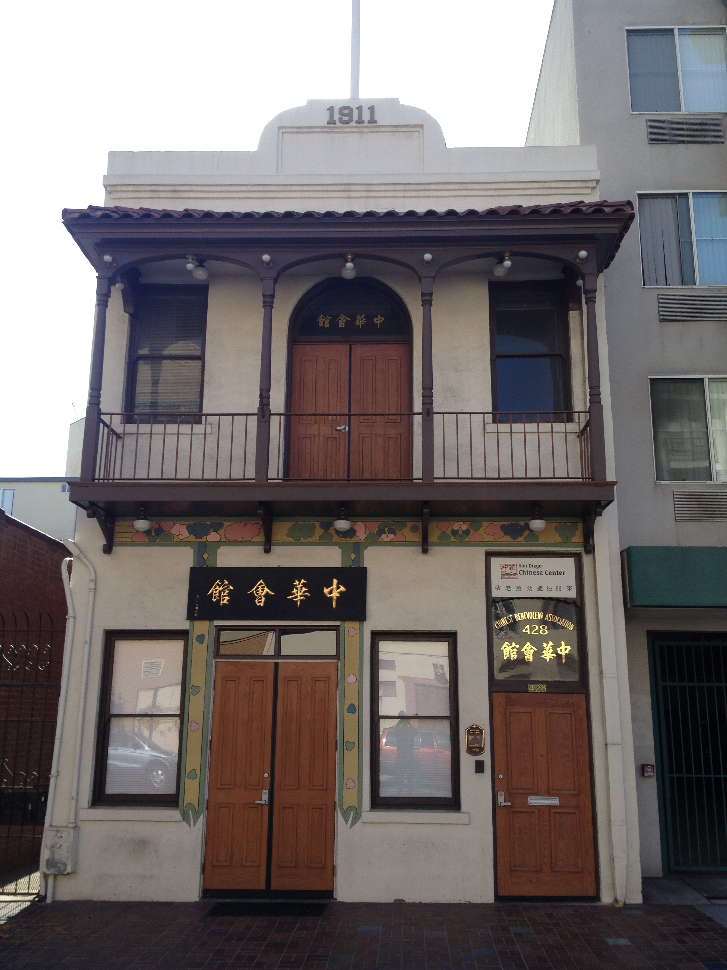 San Diego Chinese Center